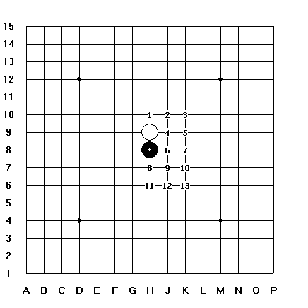 13 vertical openings available in Renju